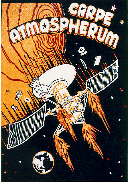 Poster designed for the Magellan end of mission. The poster words are written in latin, 'Carpe Atmospherum', meaning 'to pluck the air'.